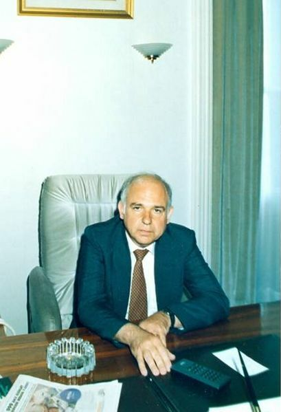 克兹科斯教授于1990年在土耳其共和国总统办公室